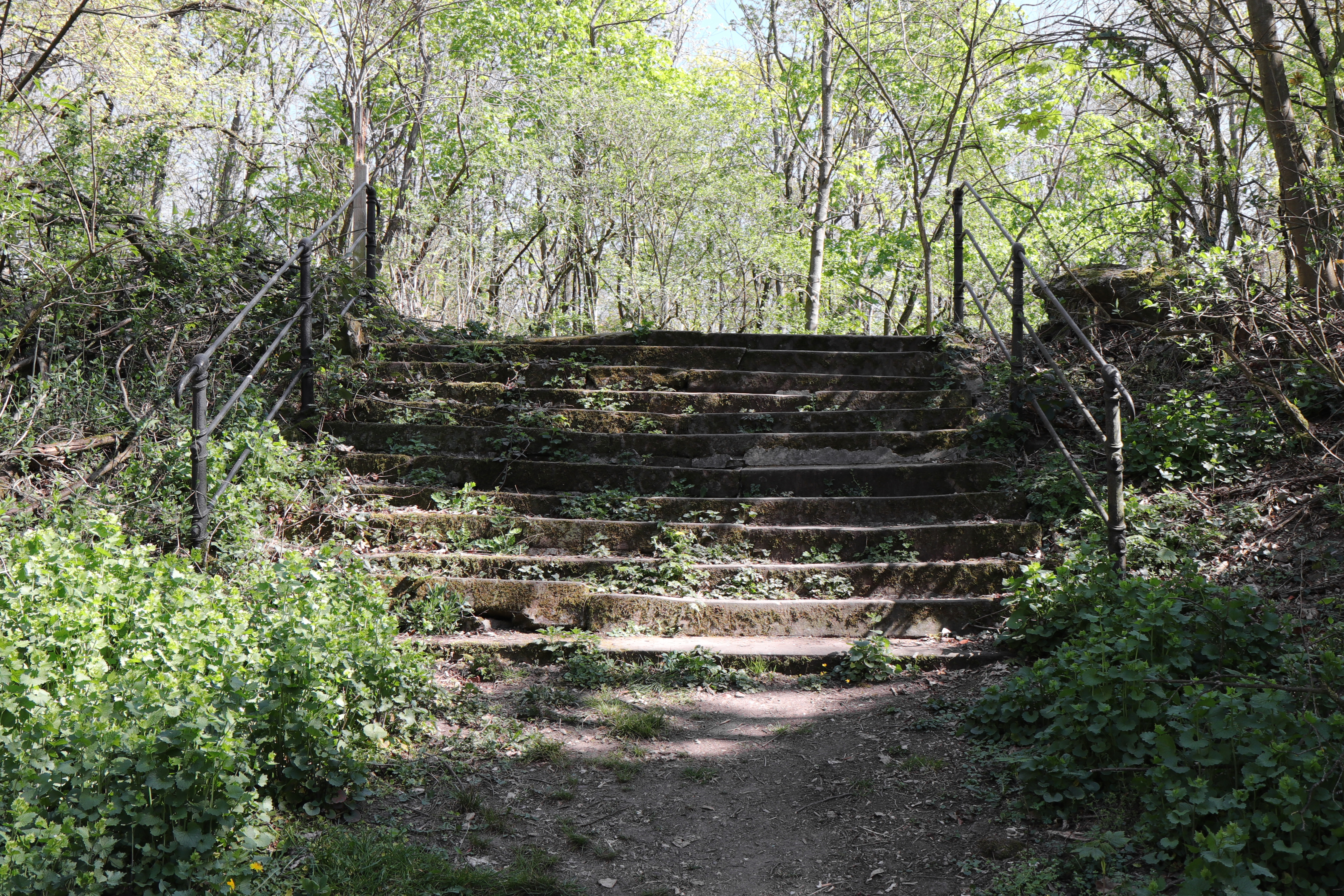 Aschaffenburg, Buechelberg in nature park Nature park Bavarian Spessart, stairs to former Buechelberg House